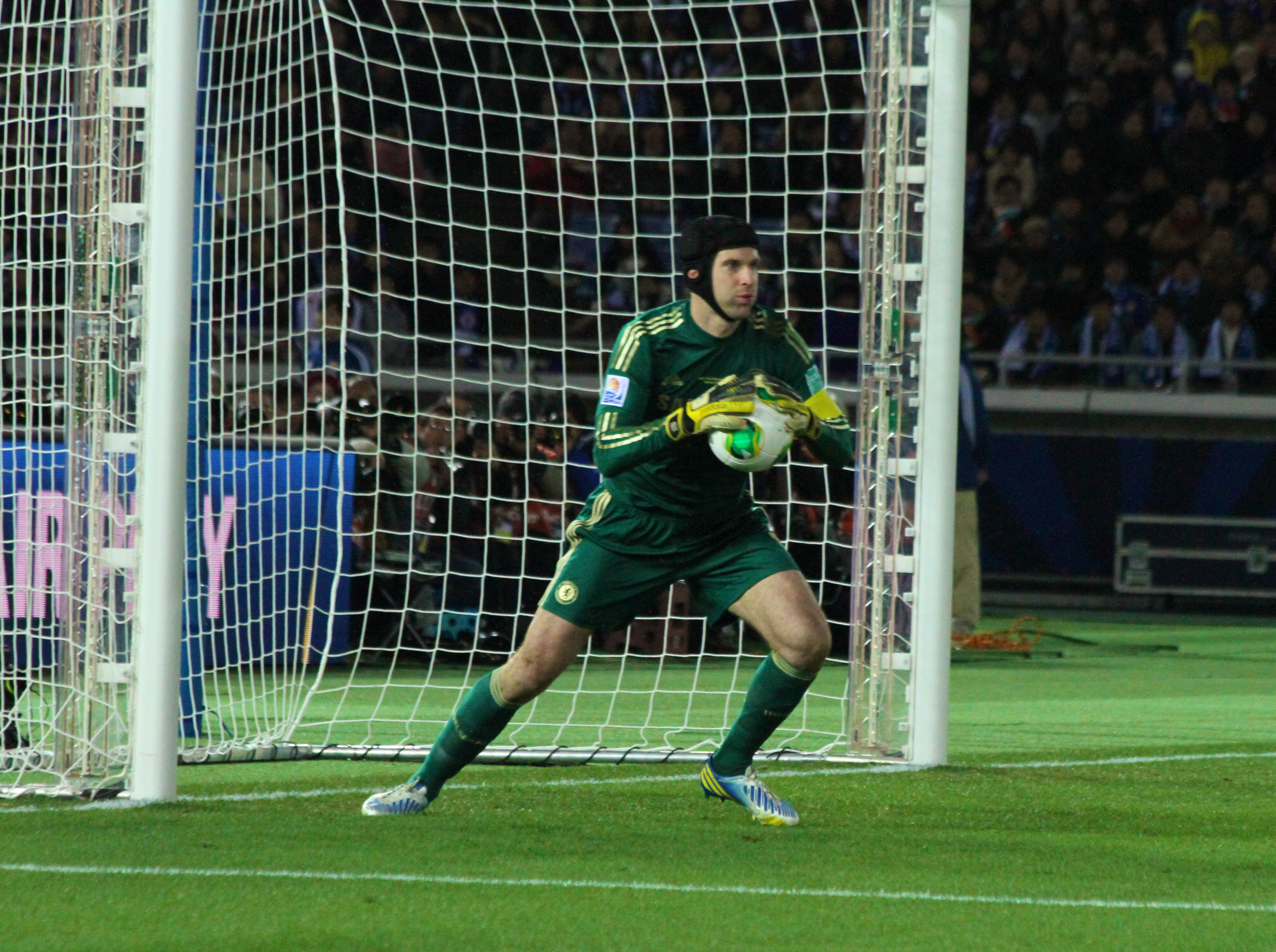 Petr Čech at the 2012 FIFA Club World Cup.